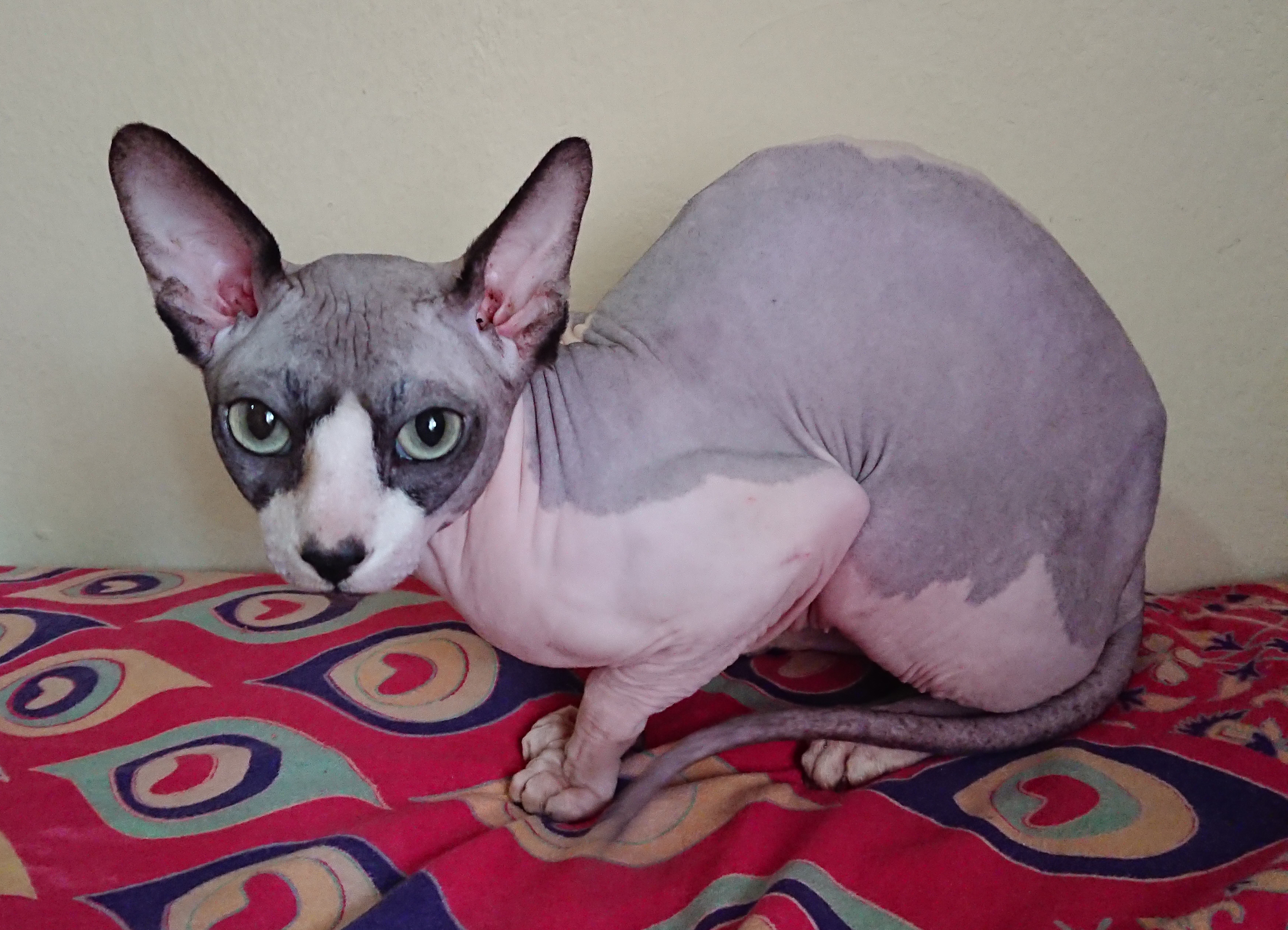 My cat, Higemon